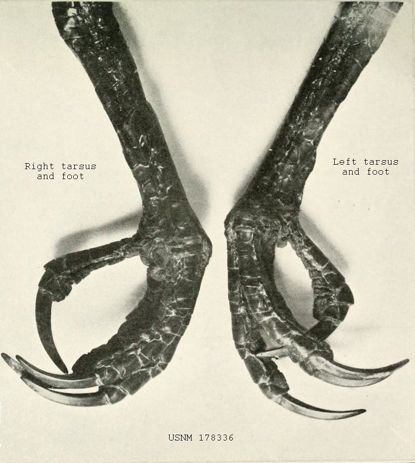 Feet of Megapodius nicobariensis